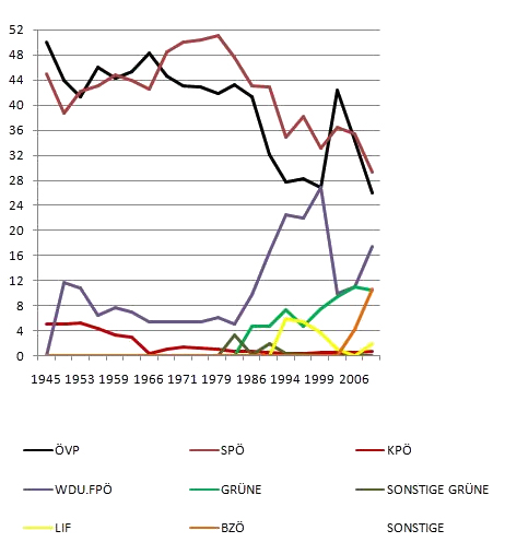 general elections in Austria since 1945